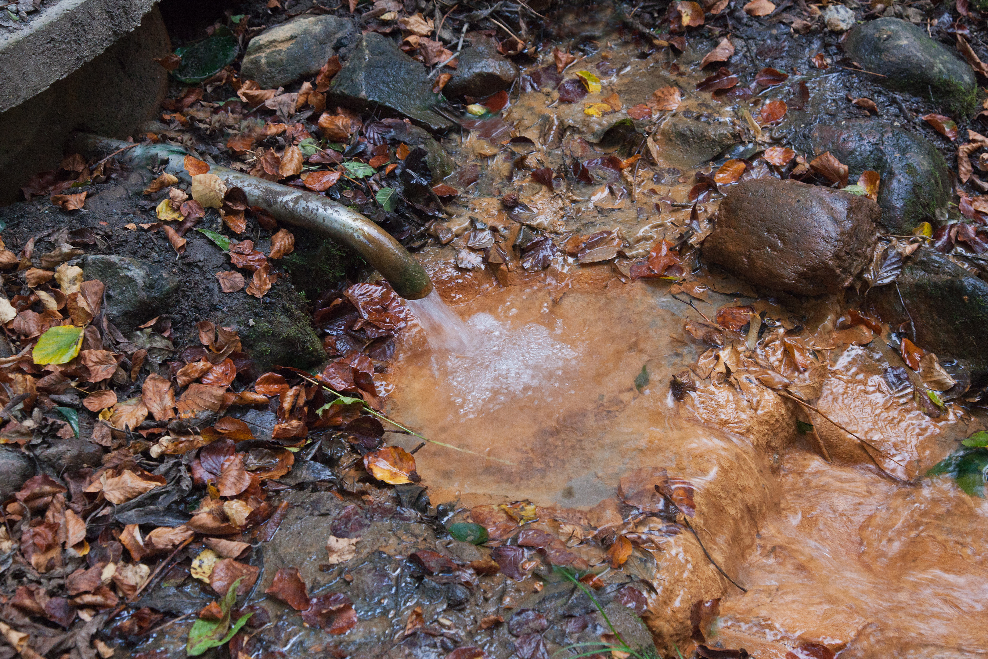 Sagard, Brunnenaue, cultural heritage monument